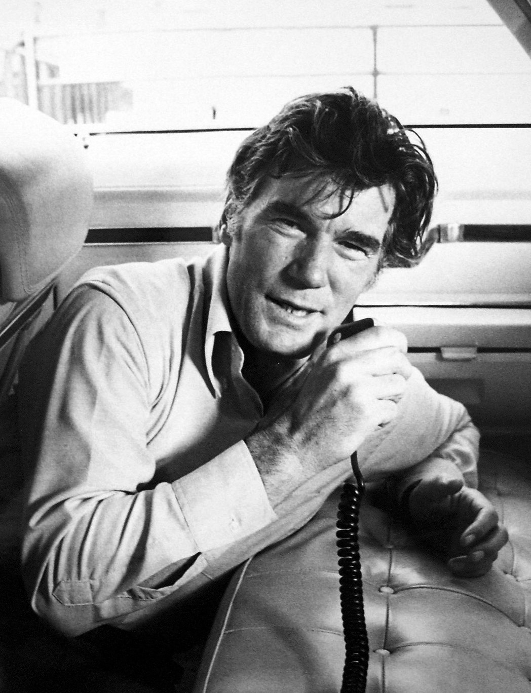 Photo of Mitchell Ryan as Chase Reddick from the television program Chase. In this scene he's doing undercover work from the back seat of a car, staying in touch with his force by radio.